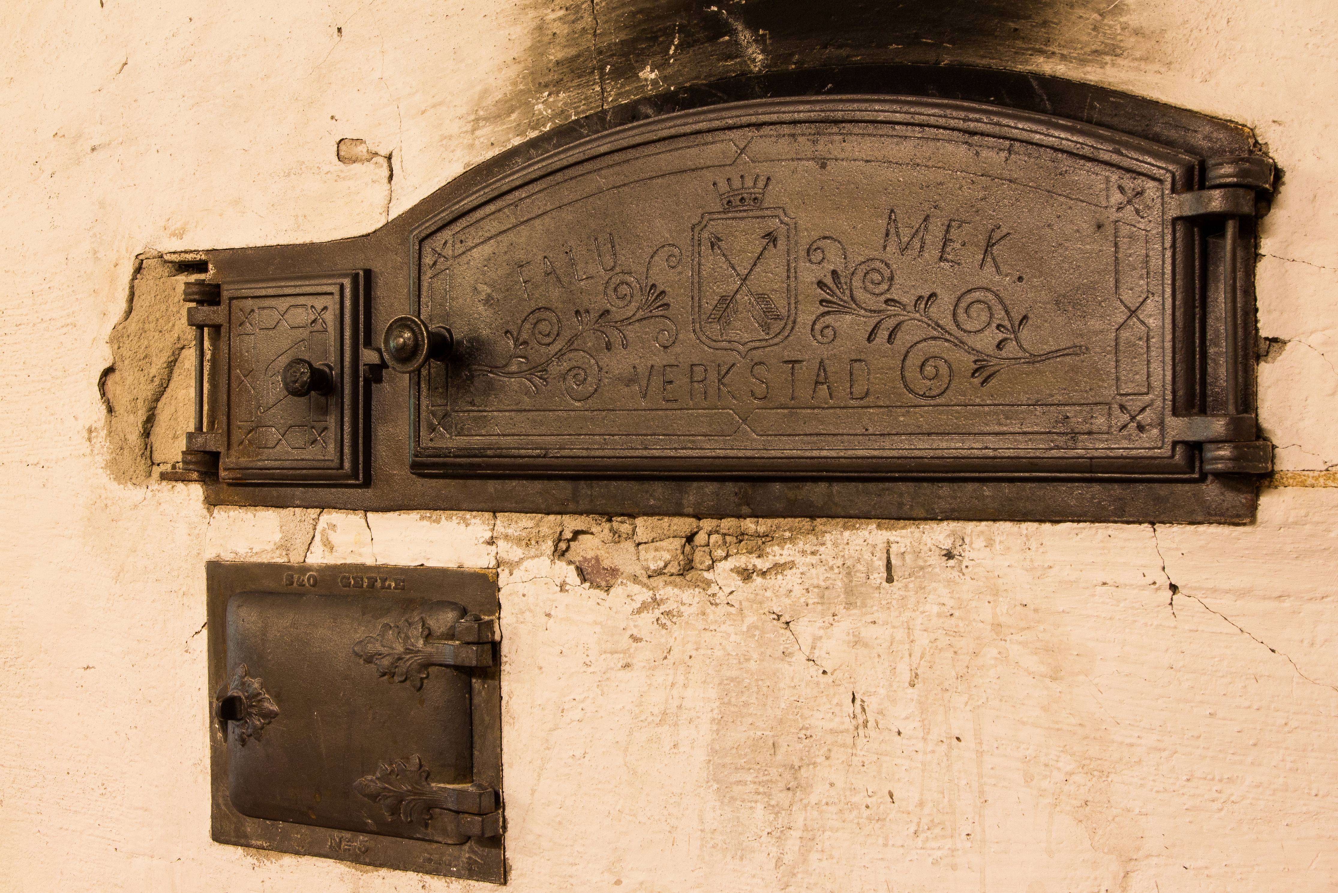 Baking oven in the bakehouse at local heritage centre Hedemora gammelgård, Sweden.